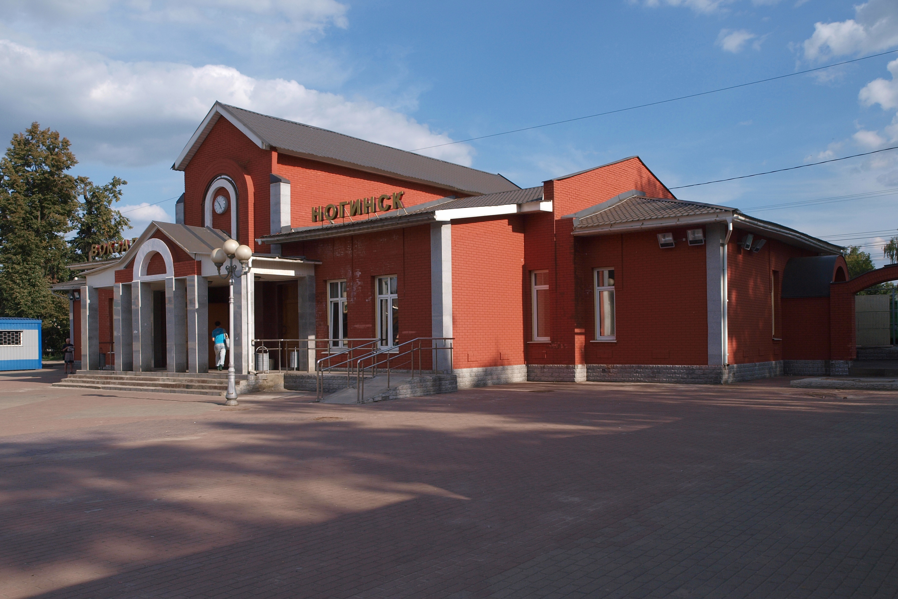 Train station in Noginsk